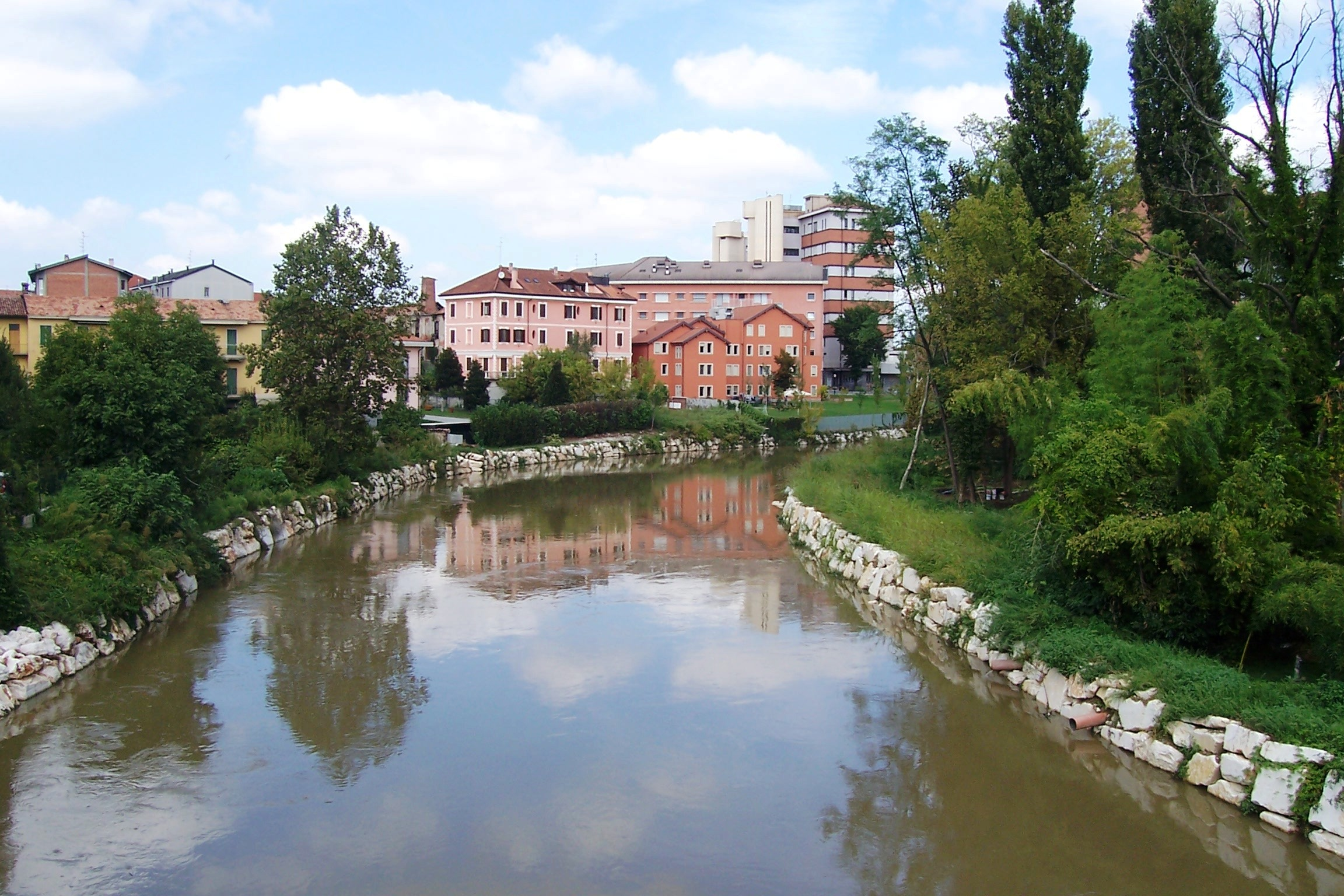 The Lambro river in Melegnano from via Dezza bridge (north view)